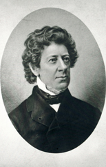 Composer Fredrik Pacius, German-Finnish